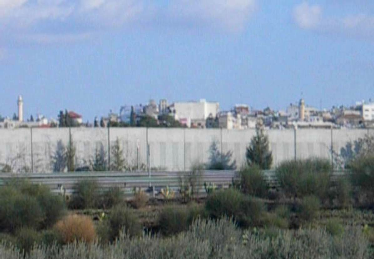 A still from a video showing the Israeli West Bank barrier.